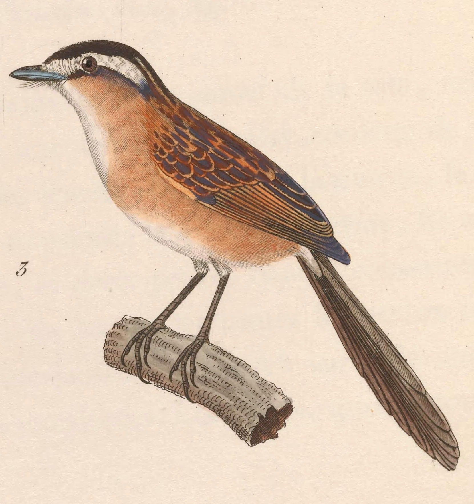 « Muscicapa stenura » = Culicivora caudacuta (Sharp-tailed Grass Tyrant) - male